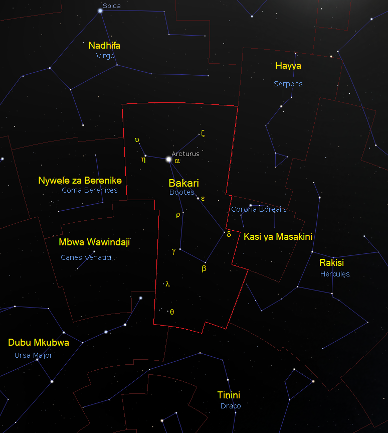 Constellation Bootes as seen from Tanzania, Swahili labelled Kiswahili: Kundinyota Bakari (Bootes) jinsi inavyoonekana kutoka Tanzania, majina kwa Kiswahili